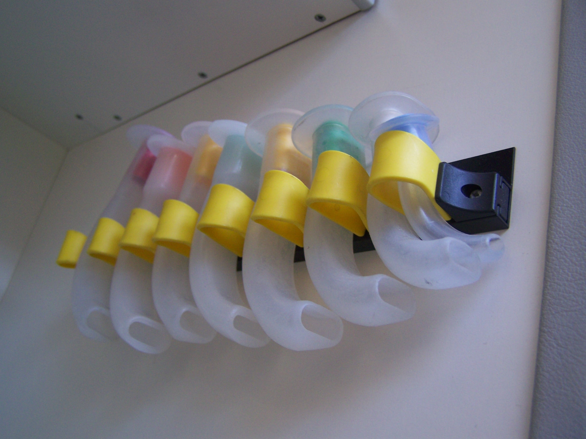 Oropharyngeal Airways (photographed in an Ambulance)